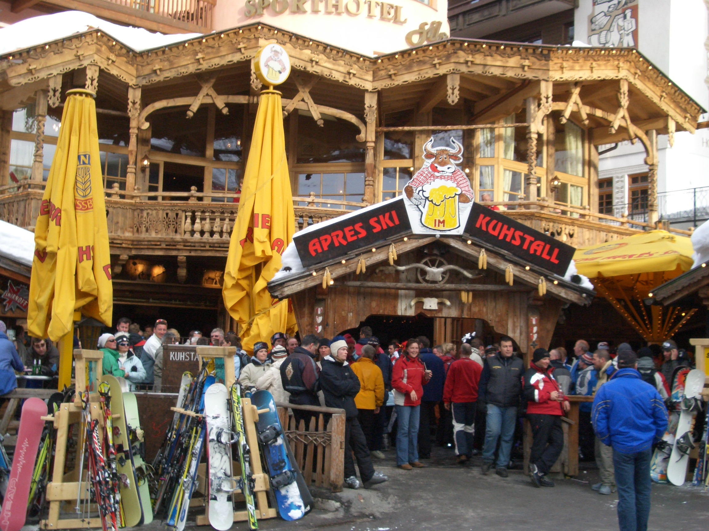 Kuhstall Apres-ski bar - the most popular apres-ski location in Ischgl